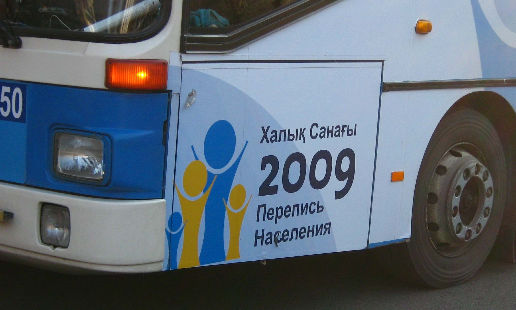 A city bus with reminder about 2009 Kazakhstan Census. Almaty, Kazakhstan